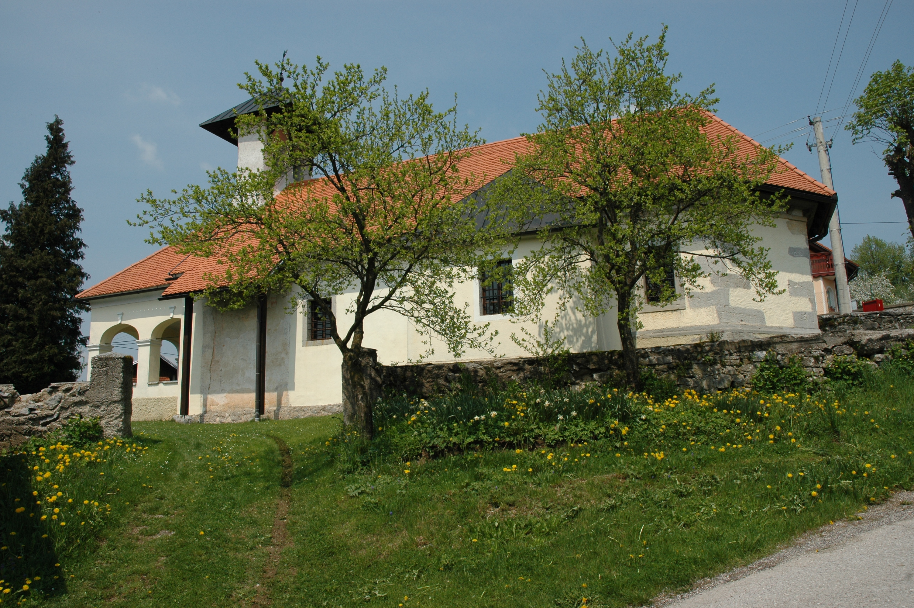 St Jedrt church in Nadlesk, Slovenia